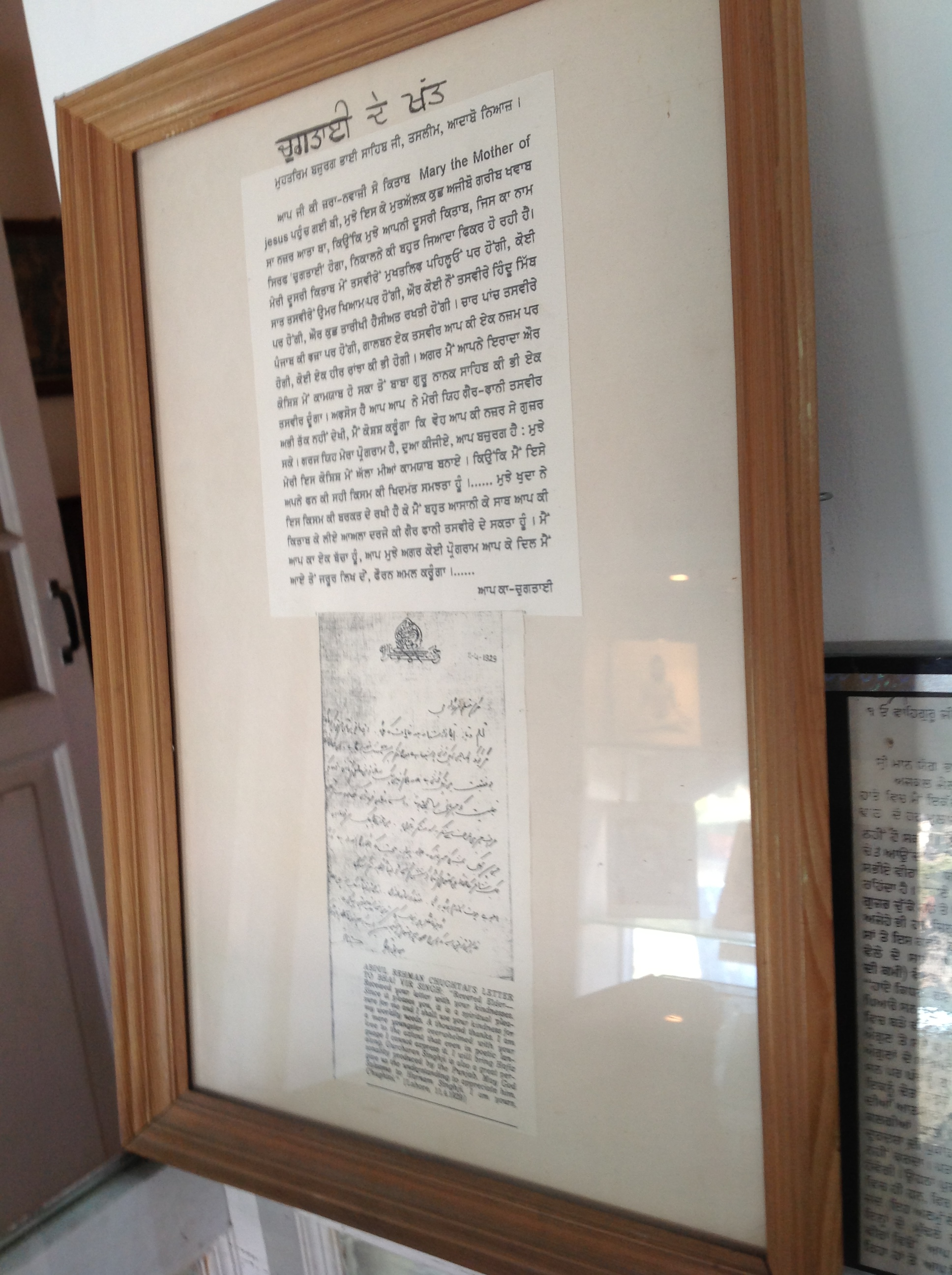 This letter is about gratitude expressed to Bhai Vir Singh on 11.04.1929 by A R Rehman , at that time a young artist, for giving him opportunity to illustrate punjabi poetry books with his art work.